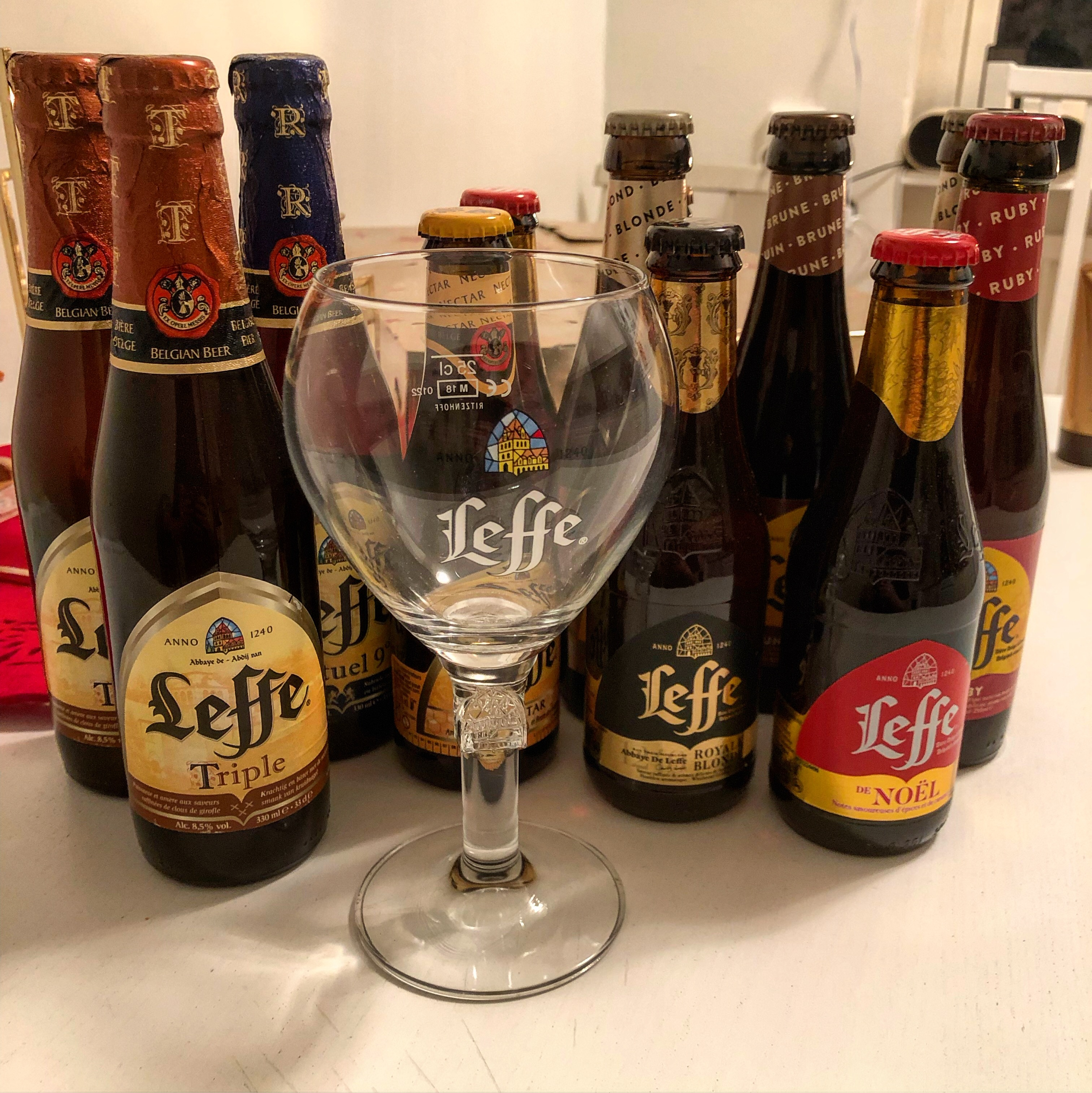 Various beers from the brand Leffe. Photo: Johan Rosén